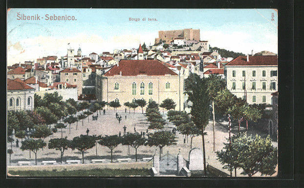 Sebenico/Šibenik, Borgo di Terra, 1907 - today's Poljana Maršala Tita. In the foreground the National Theatre and in the background the Fortress